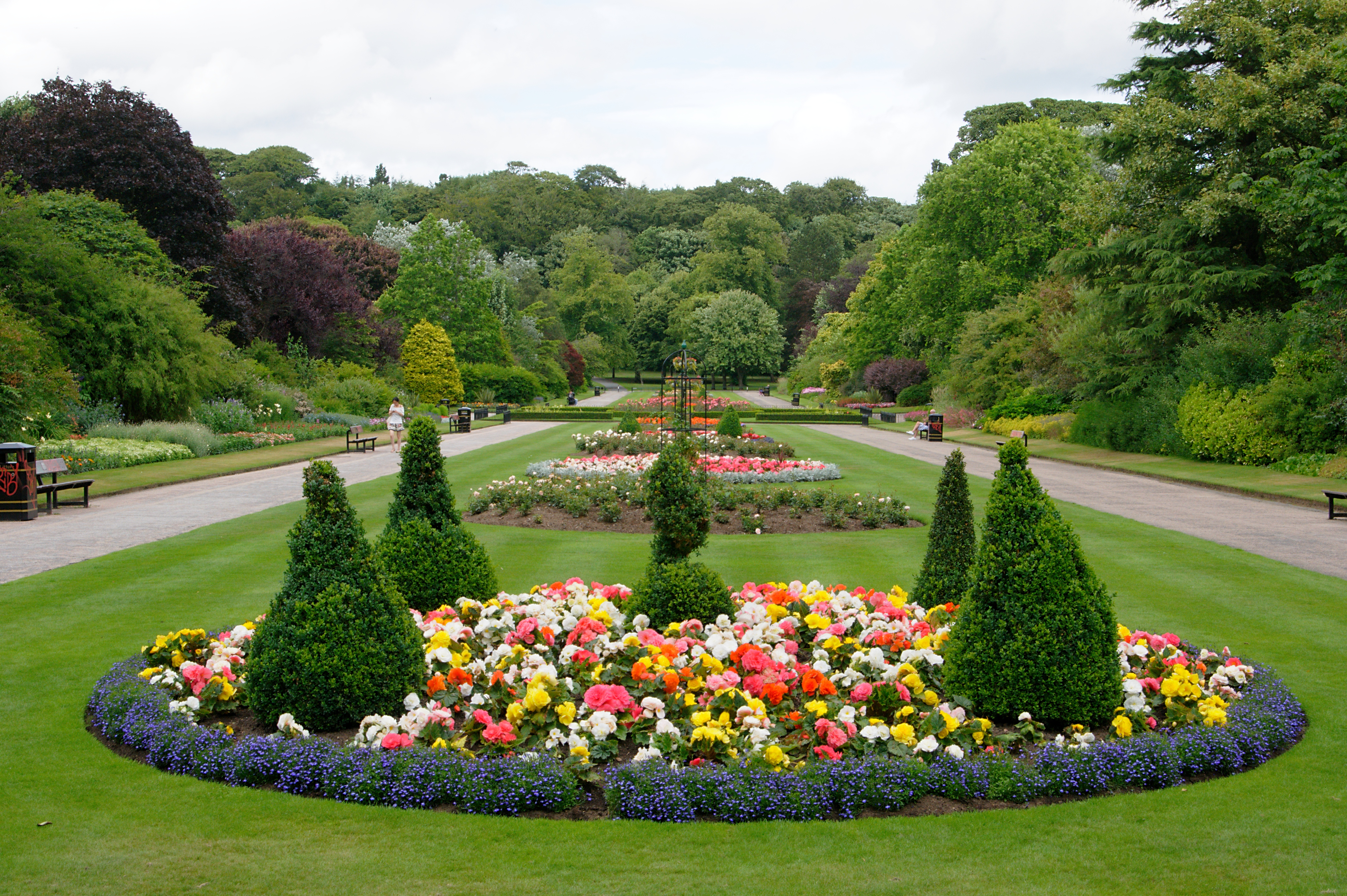 Aberdeen, Seaton Park